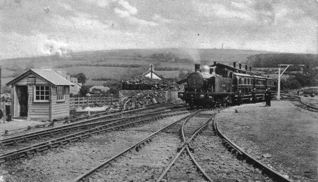 A train at Callington station on the Plymouth, Devonport and South Western Junction Railway in Cornwall. The locomotive is 0-6-2T number 5 Lord St Levan.